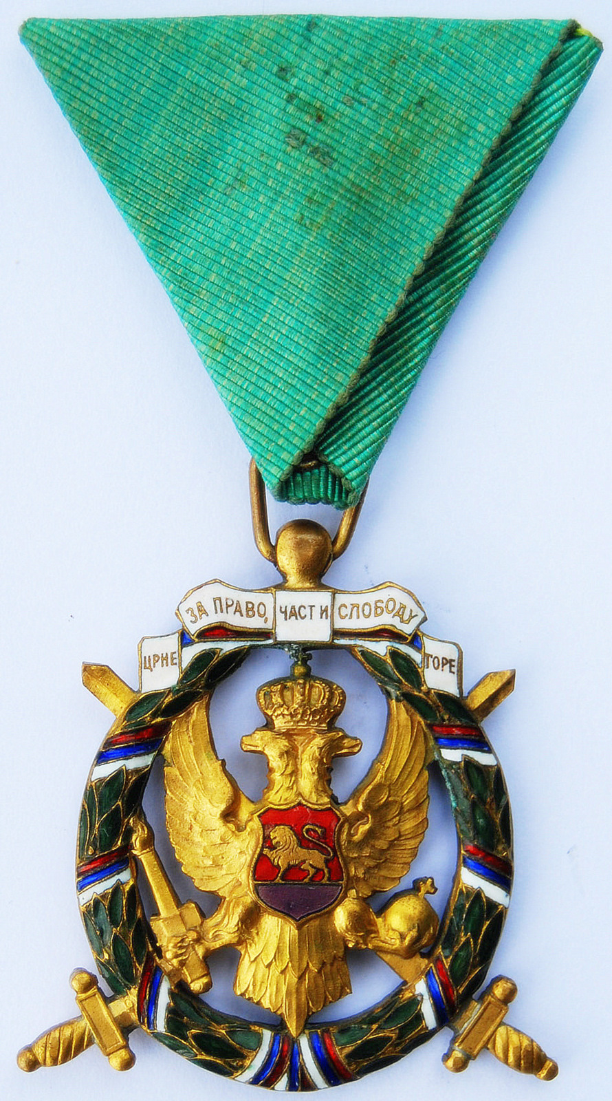 Emblem of the "Order for the Freedom of Montenegro" in the National Museum of Montenegro.